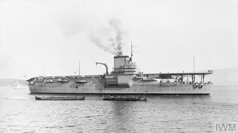 The French aircraft carrier Béarn